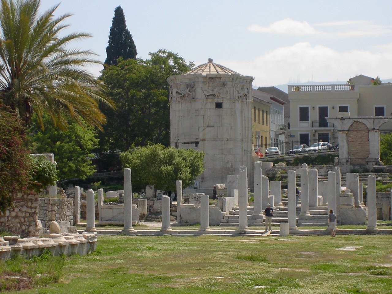 The Agora in Athens, Greece